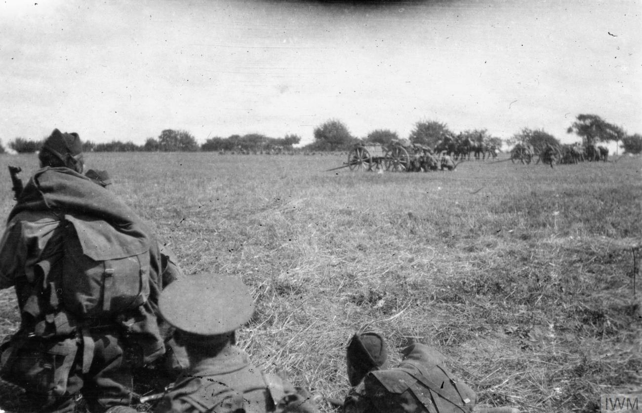 BATTLE OF THE MARNE, 7 - 10 SEPTEMBER 1914 British 18-pounder field guns come into action at Signy-Signets during the Battle of the Marne, 8 September 1914. On the left of the photograph are men of the 1st Battalion, The Cameronians (Scottish Rifles).